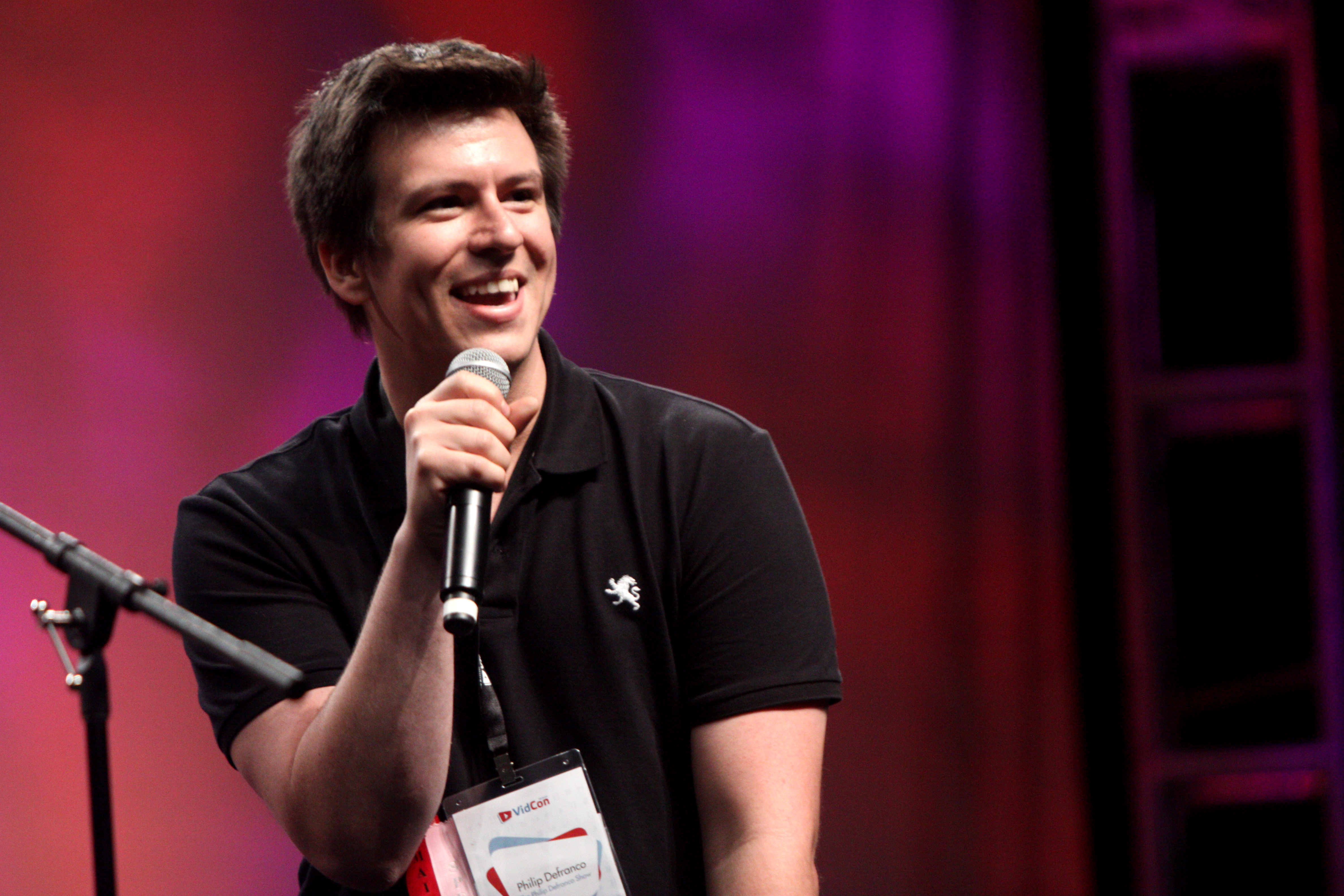 Philip Defranco speaking at VidCon 2012 at the Anaheim Convention Center in Anaheim, California.